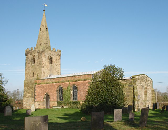 St Andrew's Church, Twyford. This church has a Norman chevroned chancel arch, 14th-century tower, 15th century chancel and a 16th-century spire. Unusually, the nave was refashioned in Victorian times with red brick outer facing walls and round-headed windows. This feature was hidden by ivy in 2003 120953.